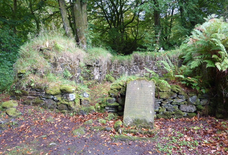 Saddell Abbey, Argyll and Bute, Scotland - refectory